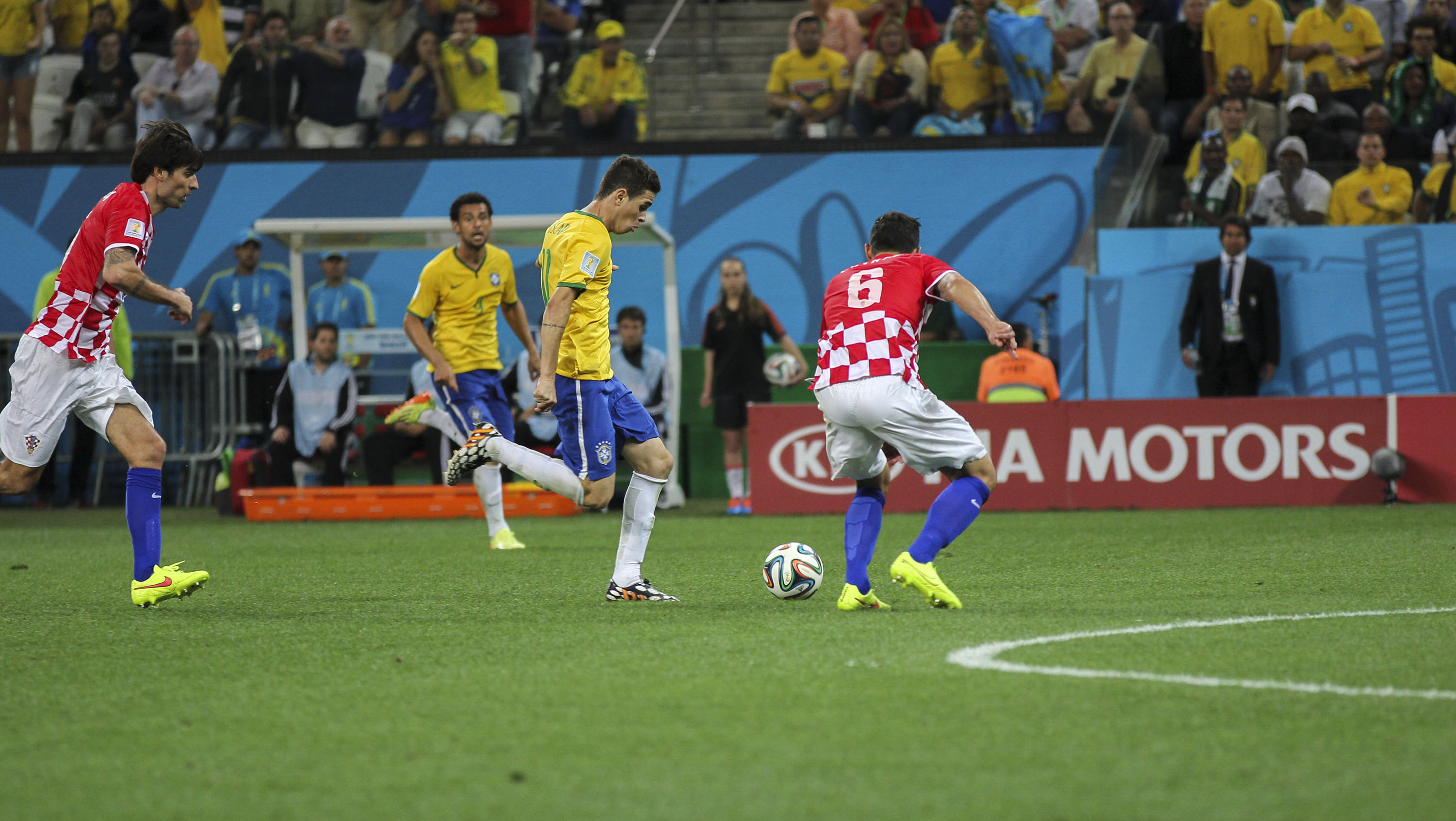 Brazil and Croatia match at the FIFA World Cup 2014-06-12